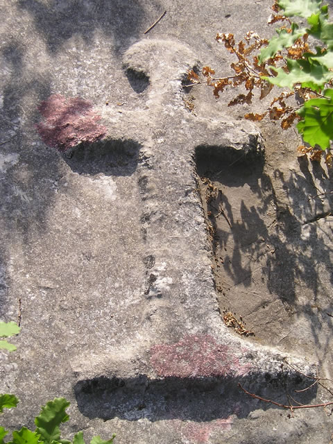 Stećci in Tihaljina,Grude